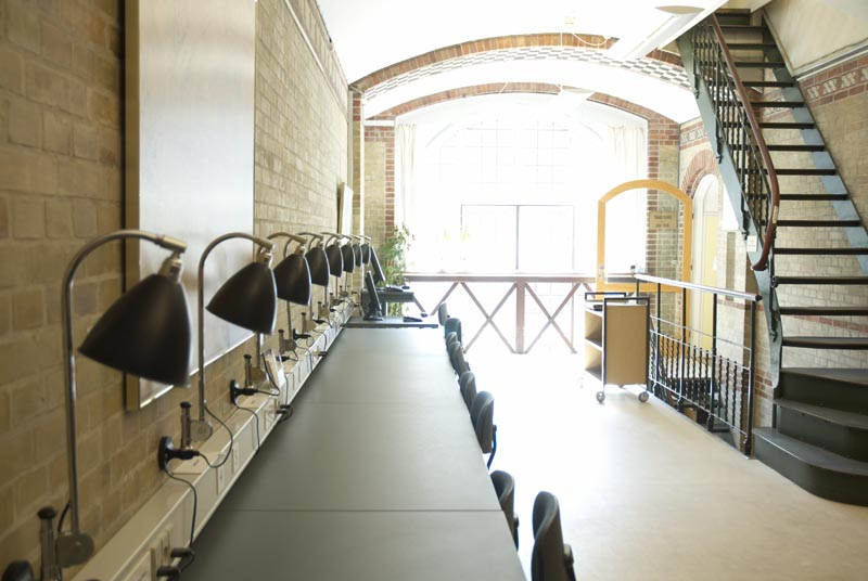 Læsesalen på Københavns Stadsarkiv